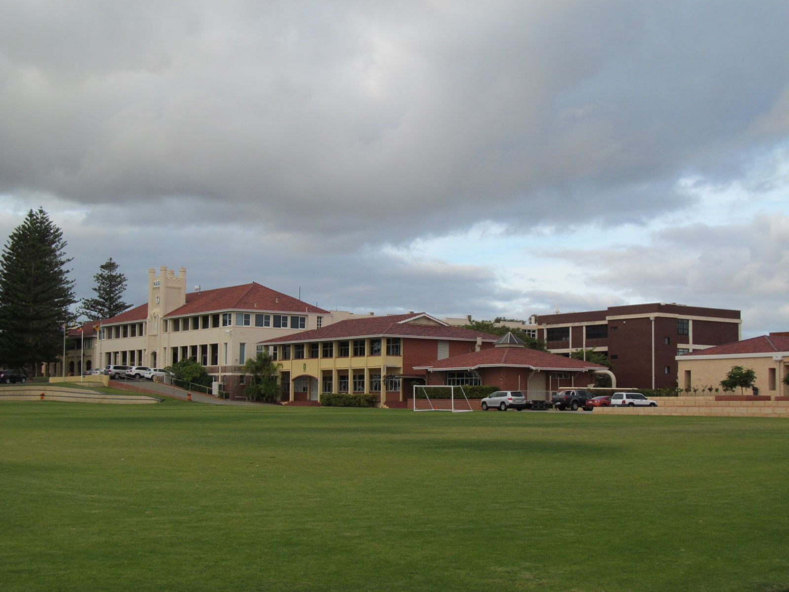 Buildings at Nagle College, Sanford Street, Geraldton, Western Australia